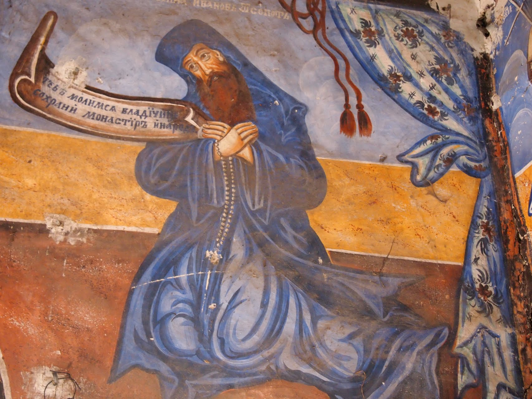 Frescos from Dolnopasarel monastery, painted by painters Mihail Blagoev and Hristo Blagoev in XIX century.